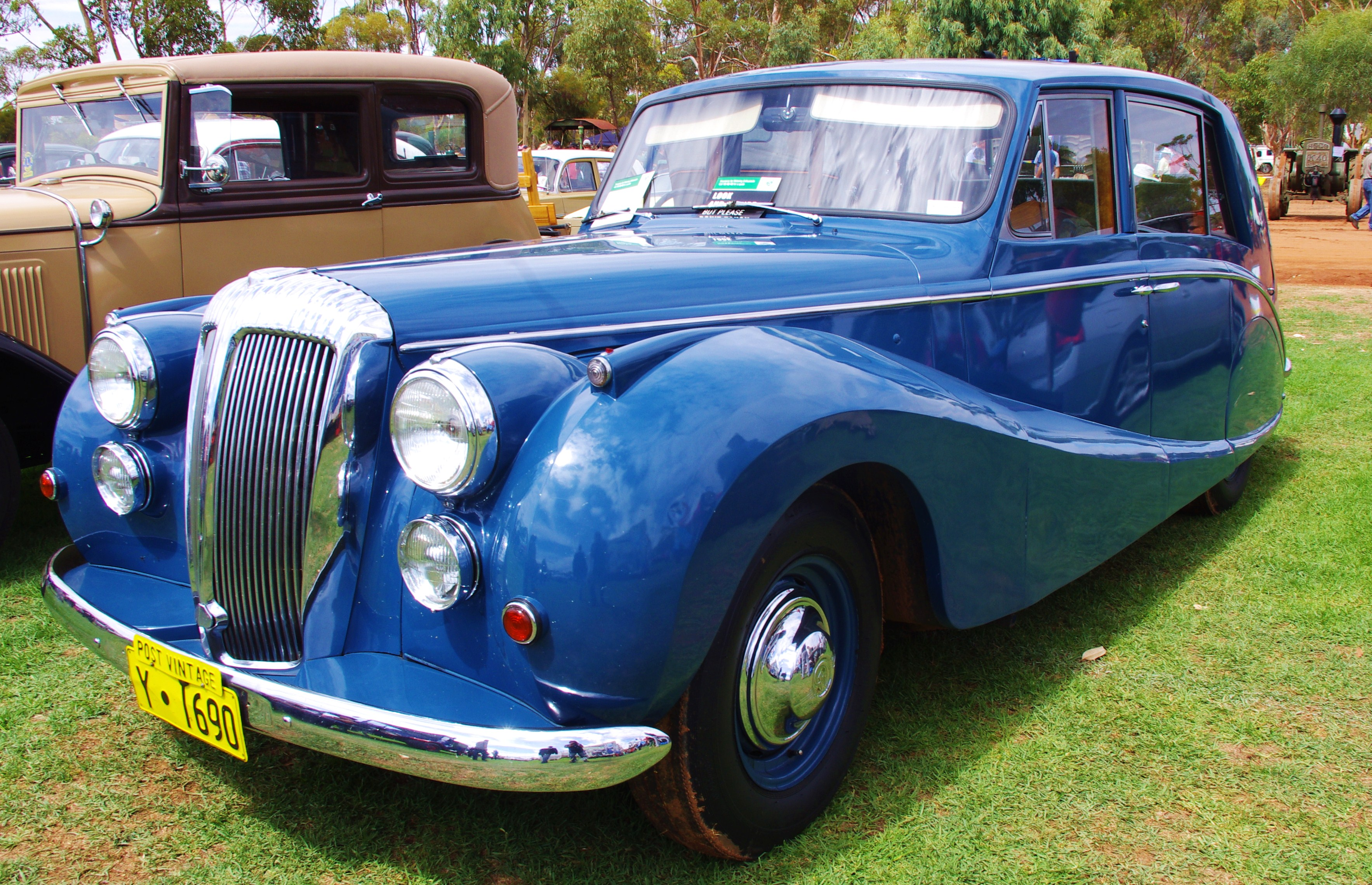 1953 Daimler Regency Empress body by Hooper Brookton W A Australia